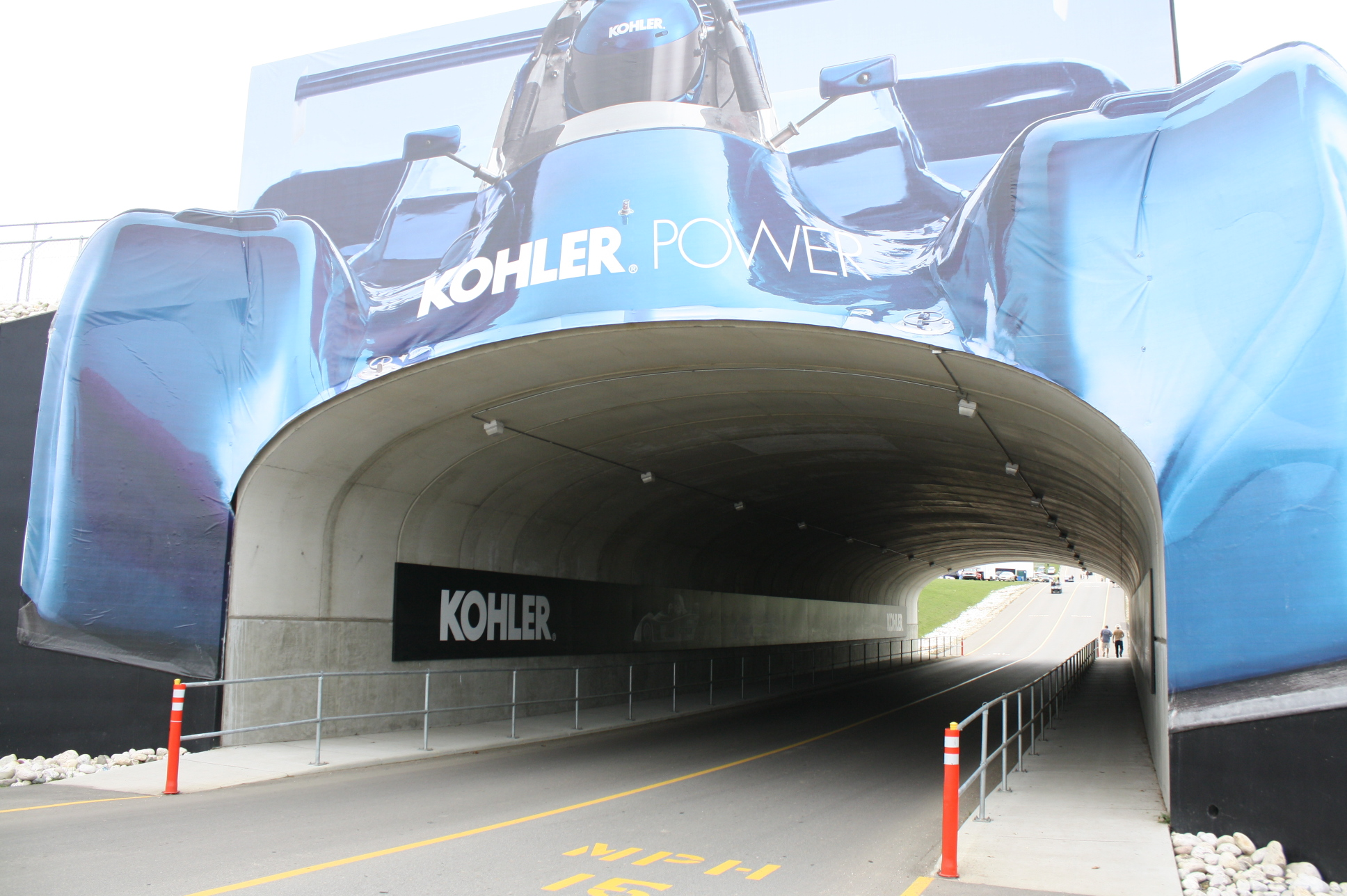 The Kohler Tunnel, the entrance to the paddock area at Road America.